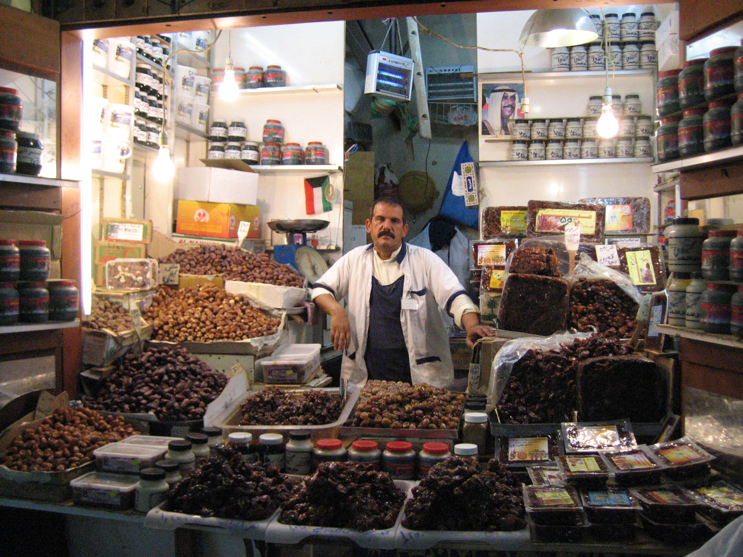 Date seller in the old souq in Kuwait City, surrounded by dates from Kuwait, Iran, Saudi Arabia and elsewhere.